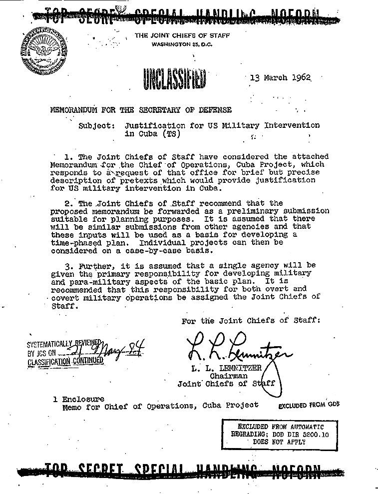 Actual photo of the Northwoods Memorandum for the U.S. Secretary of Defense (March 13, 1962) titled: "Justification for U.S. Military Intervention in Cuba (TS)".